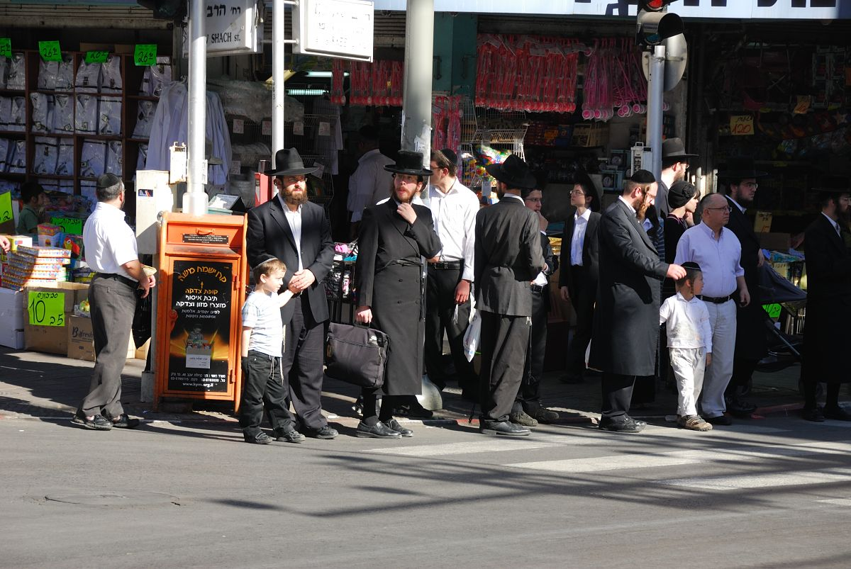 Architecture of Bnei Brak - Wikipedians tour This image was taken as part of the Elef Millim project trip to Bnei Brak, which was held on Friday, 3rd December 2010. To view all images uploaded as part of the Elef Millim Project Bnei Brak - Rabbi Akiva Street